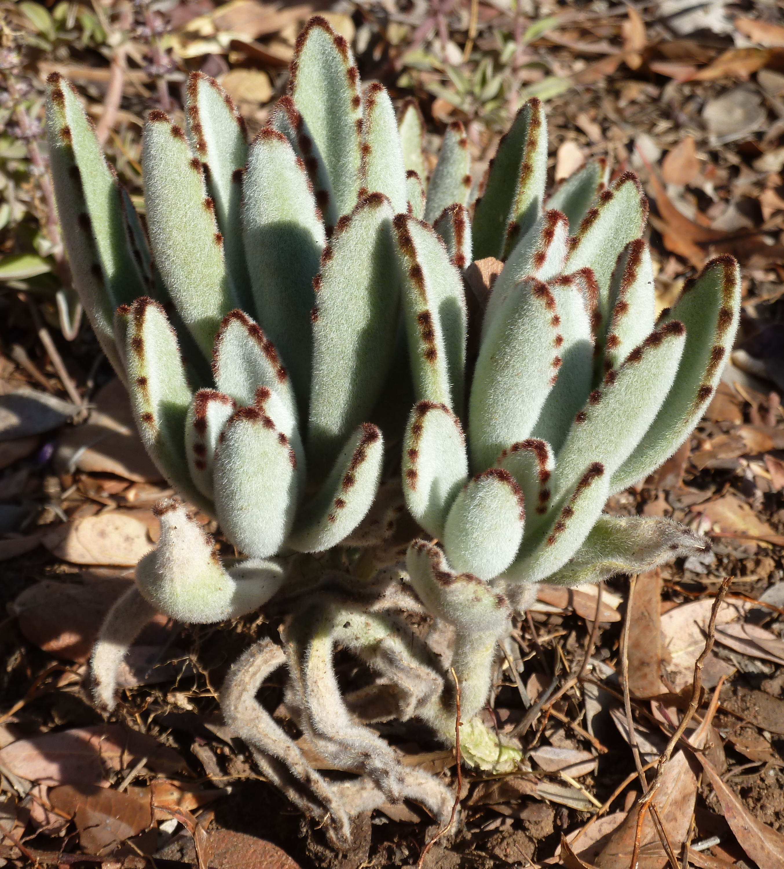 Panda plant in a rockery in the Waterberg, South Africa